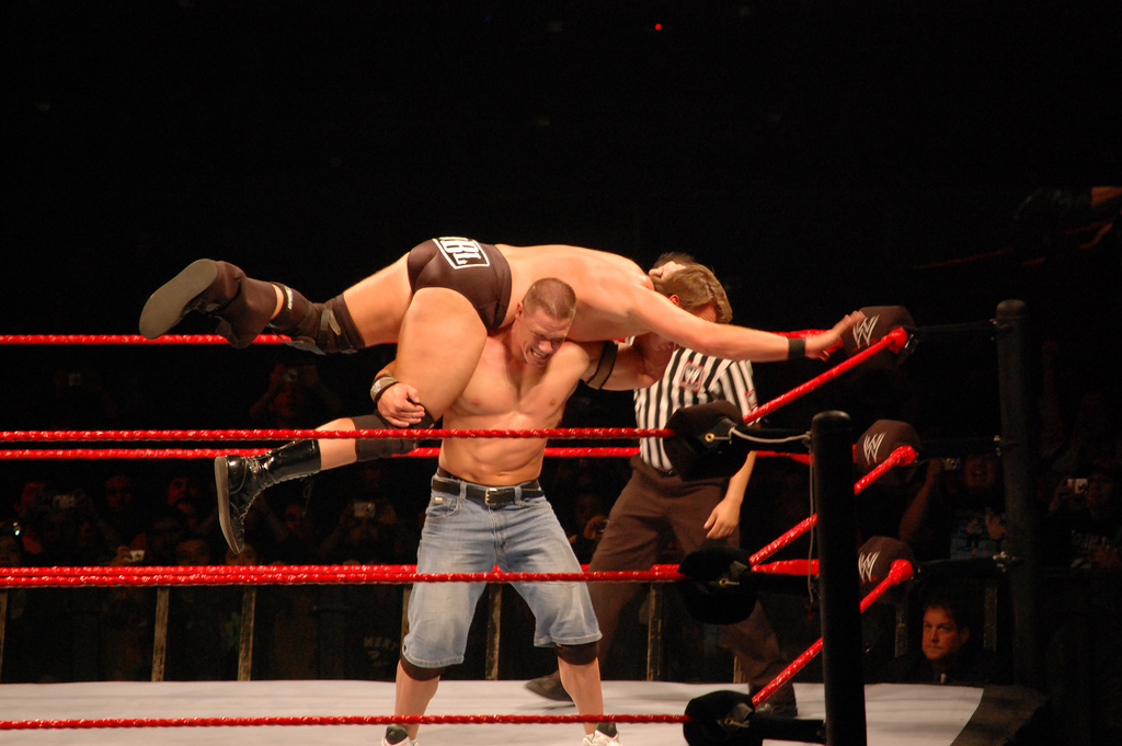 John Cena applying a FU to John "Bradshow" Layfield